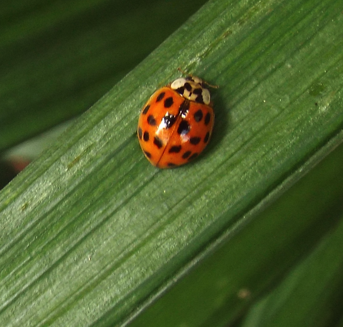 Coelophora pupillata found in Chattanooga, TN